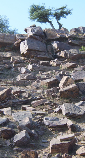 Govardhan hill, where Krishna and Balarama are purportedly said to have lived as young cowherds.